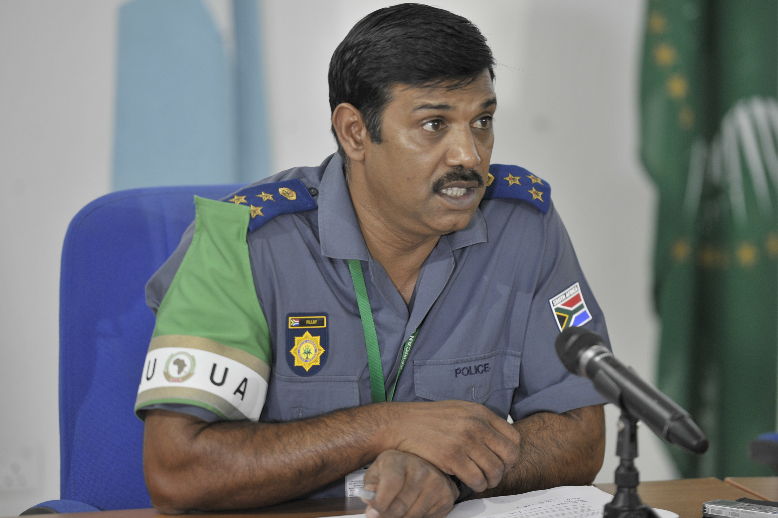 AMISOM Police Commisioner Anand Pillay answers a question posed to him by a journalist during a press briefing held in Mogadishu Somalia on 3rd July 2014. AMISOM photo / David Mutua